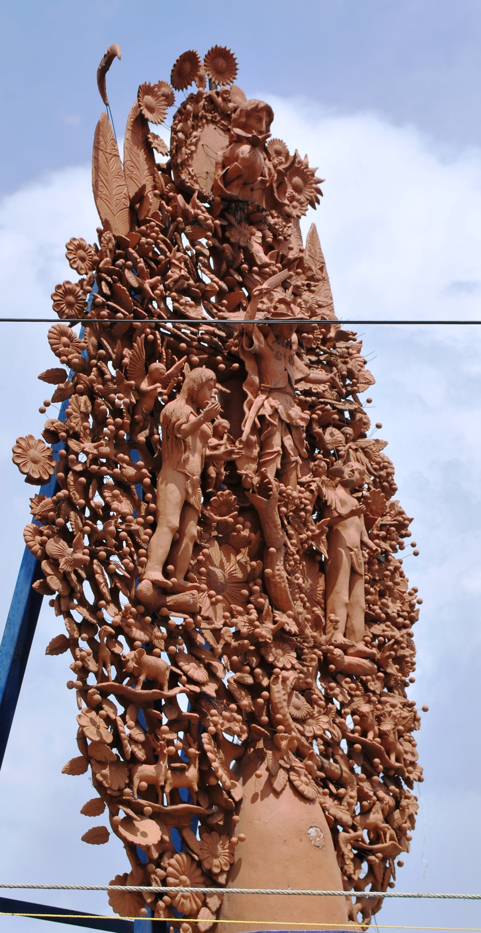 Large "Tree of Life" pottery sculpture at the entrance to a "craft village" in Metepec, Mexico State